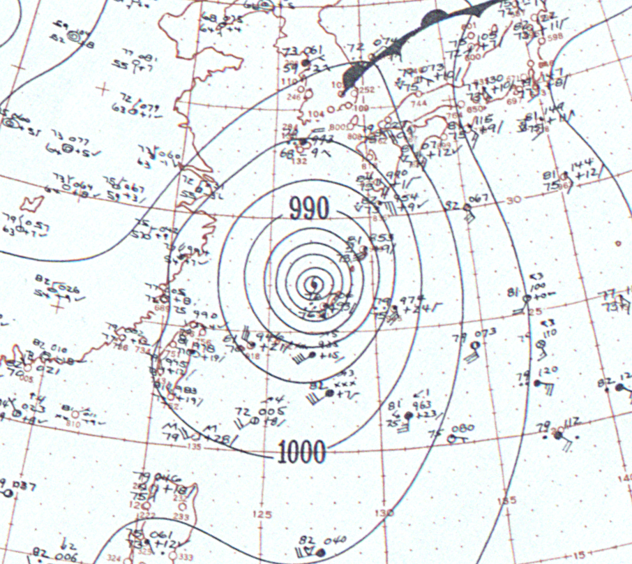 Surface weather analysis of Typhoon Emma at peak intensity on September 3, 1956.